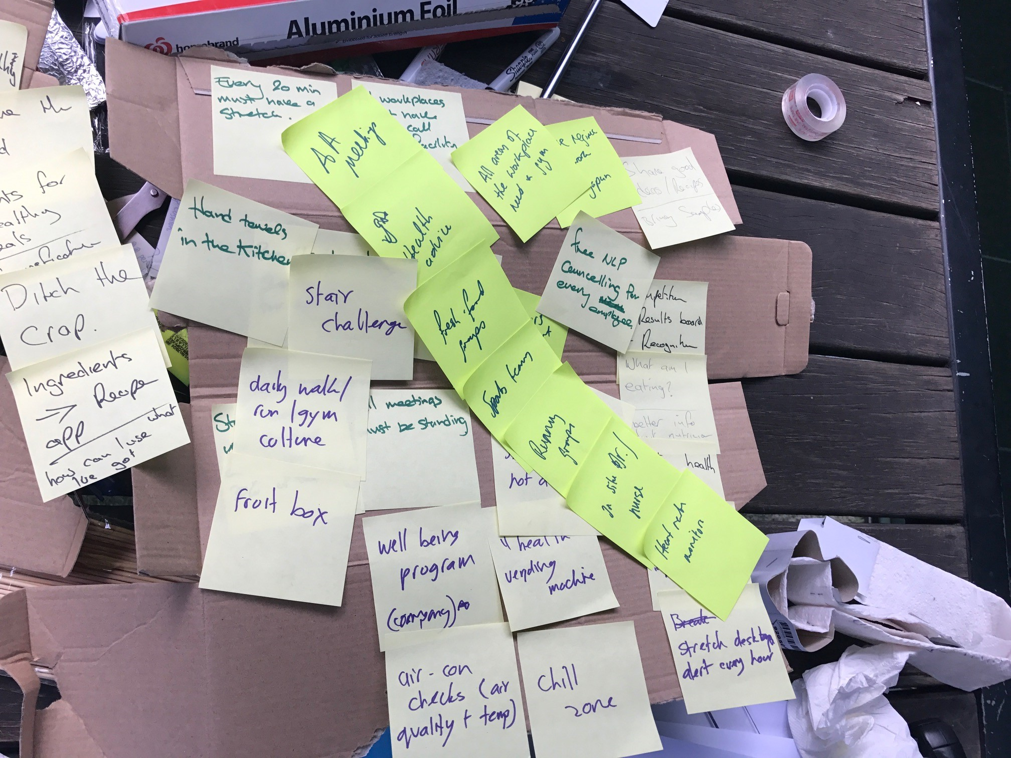 Brainstorming customer needs